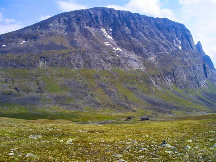 The Nallo massif in the Kebnekaise area.